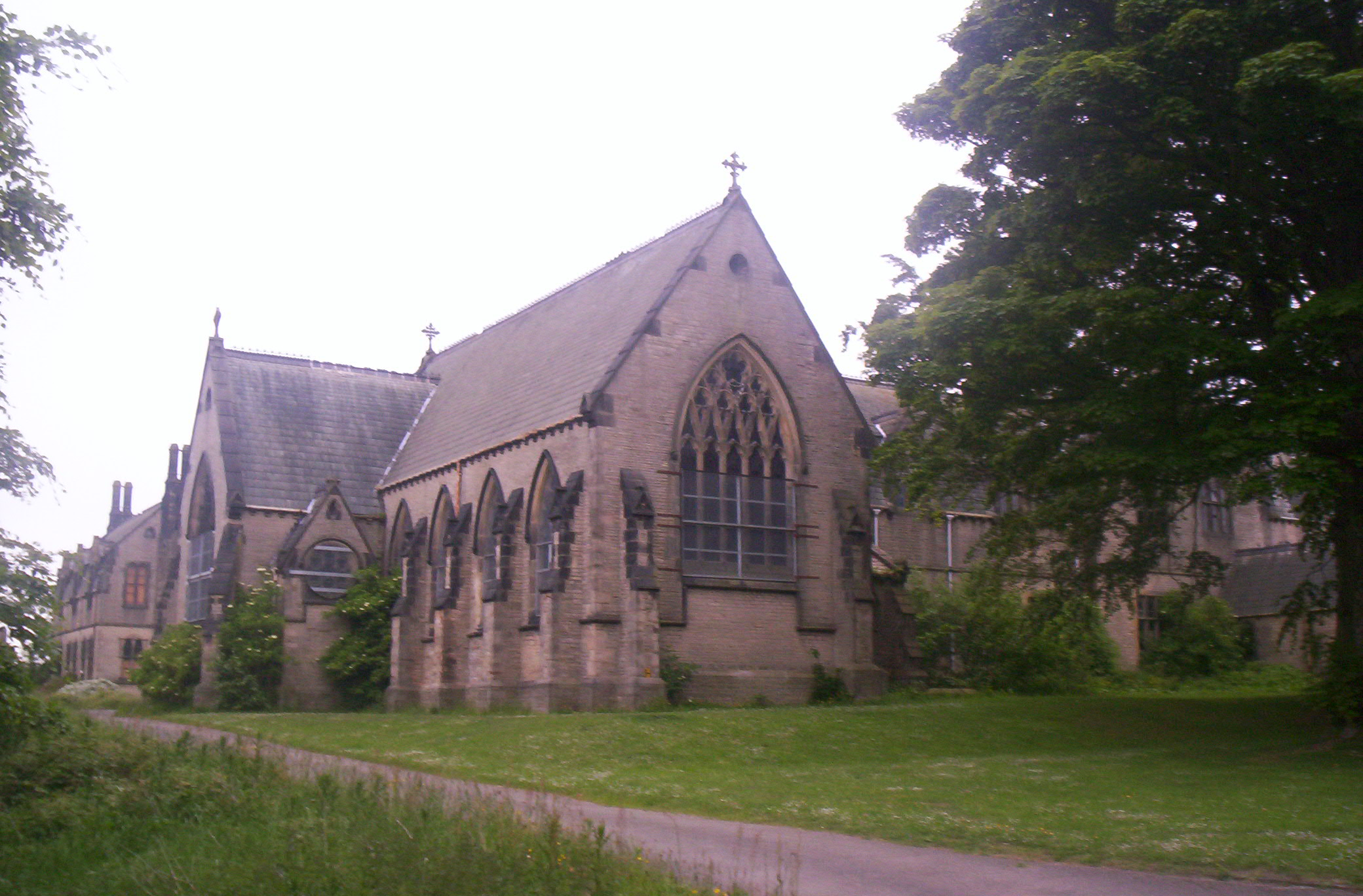 St. Aloysius' Chapel, Ushaw College, Durham